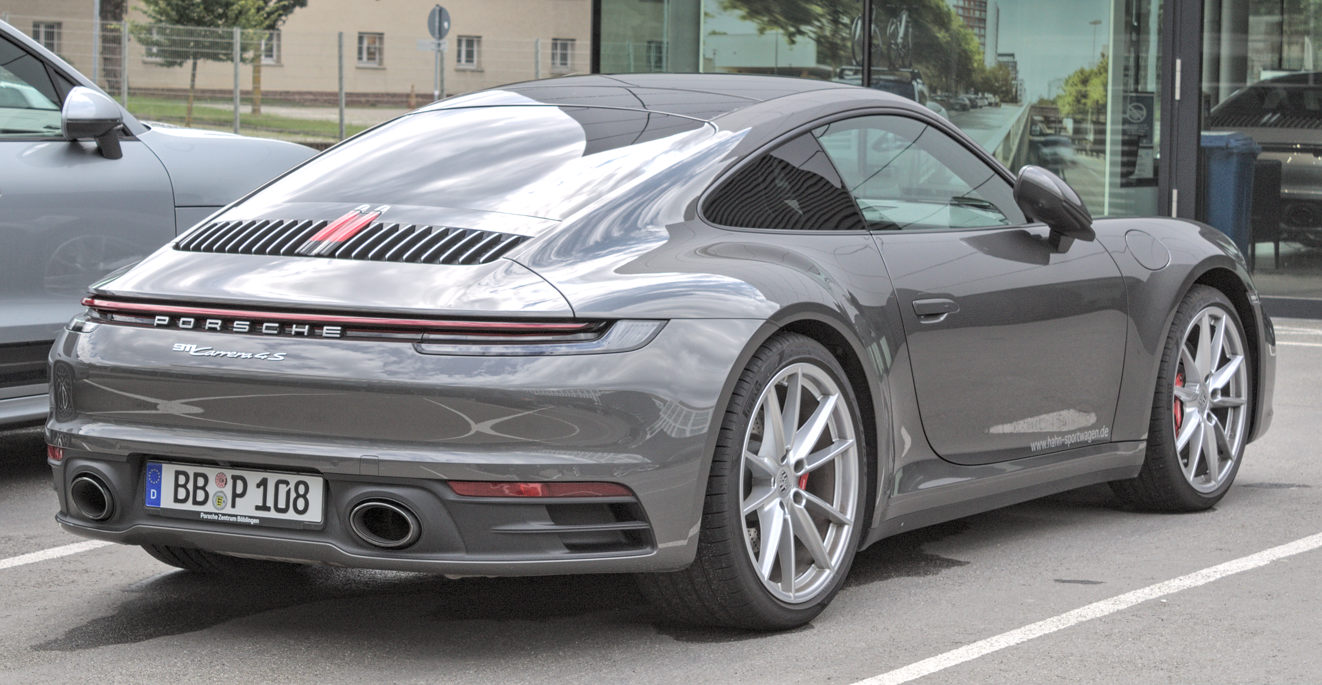 Porsche_992_Carrera_4S in Böblingen